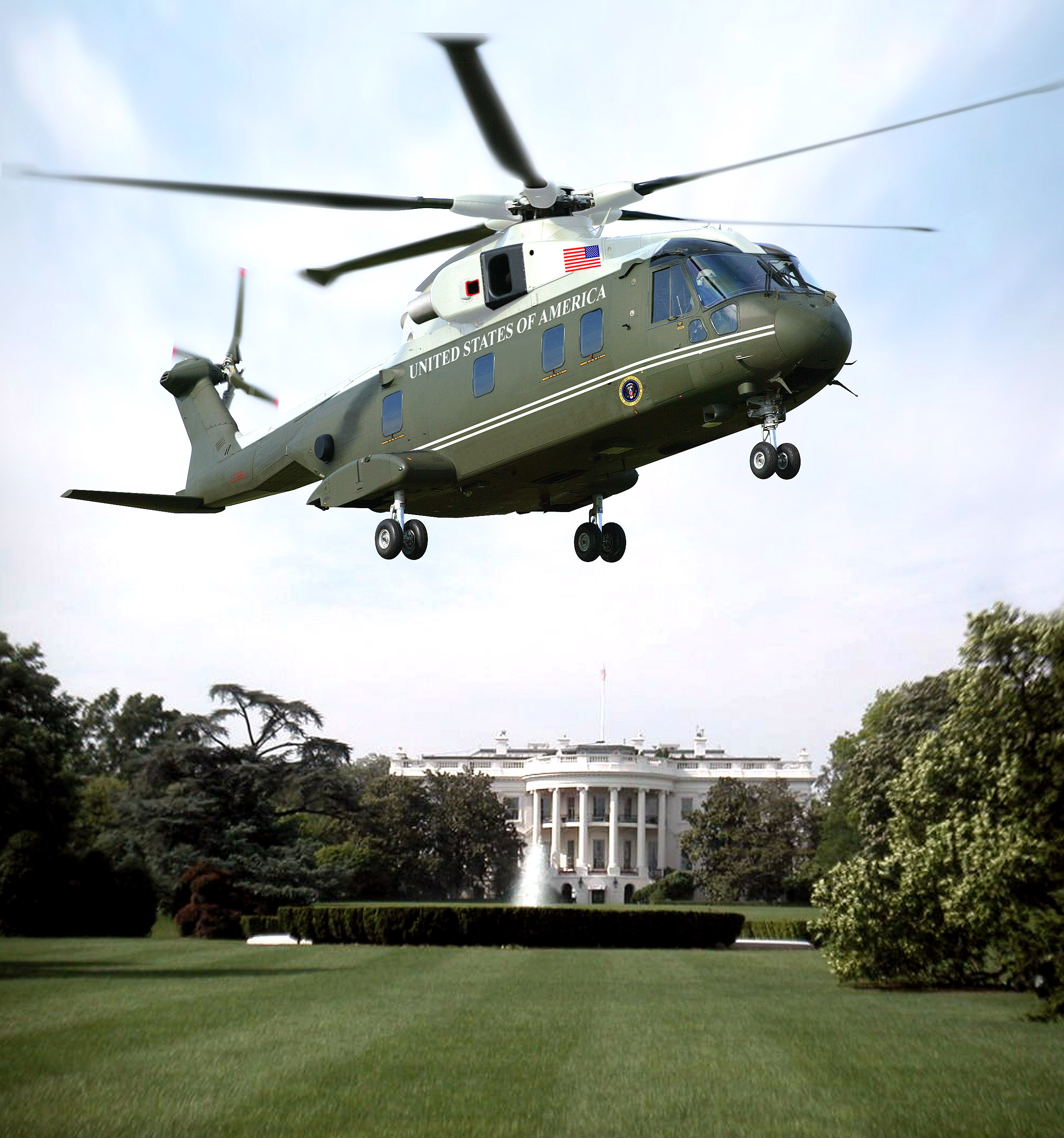 Helicopter VH071 landing at the Whitehouse